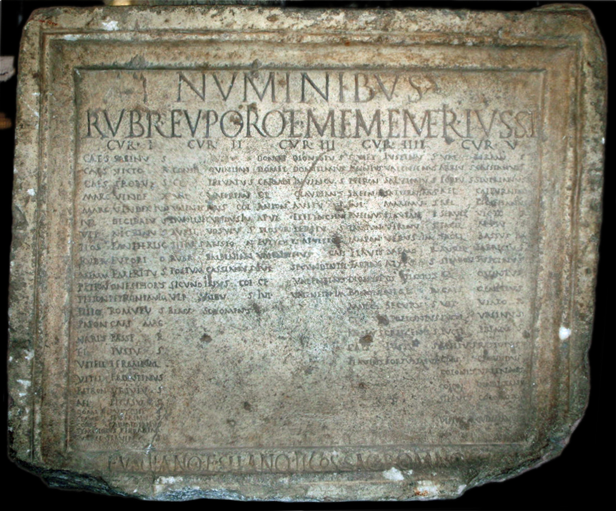 Register of Savaria Citizens per Constituency